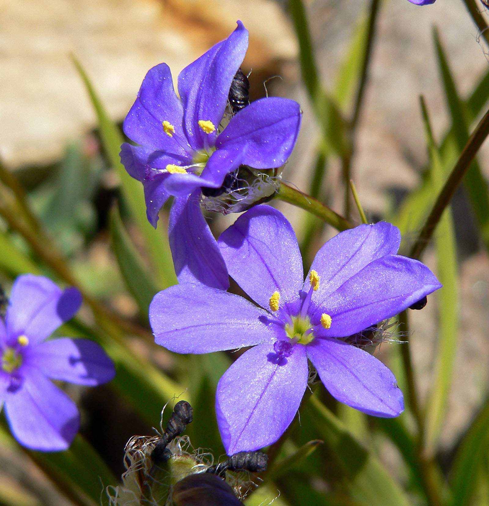 Aristea africana at the University of California Botanical Garden, Berkeley, California